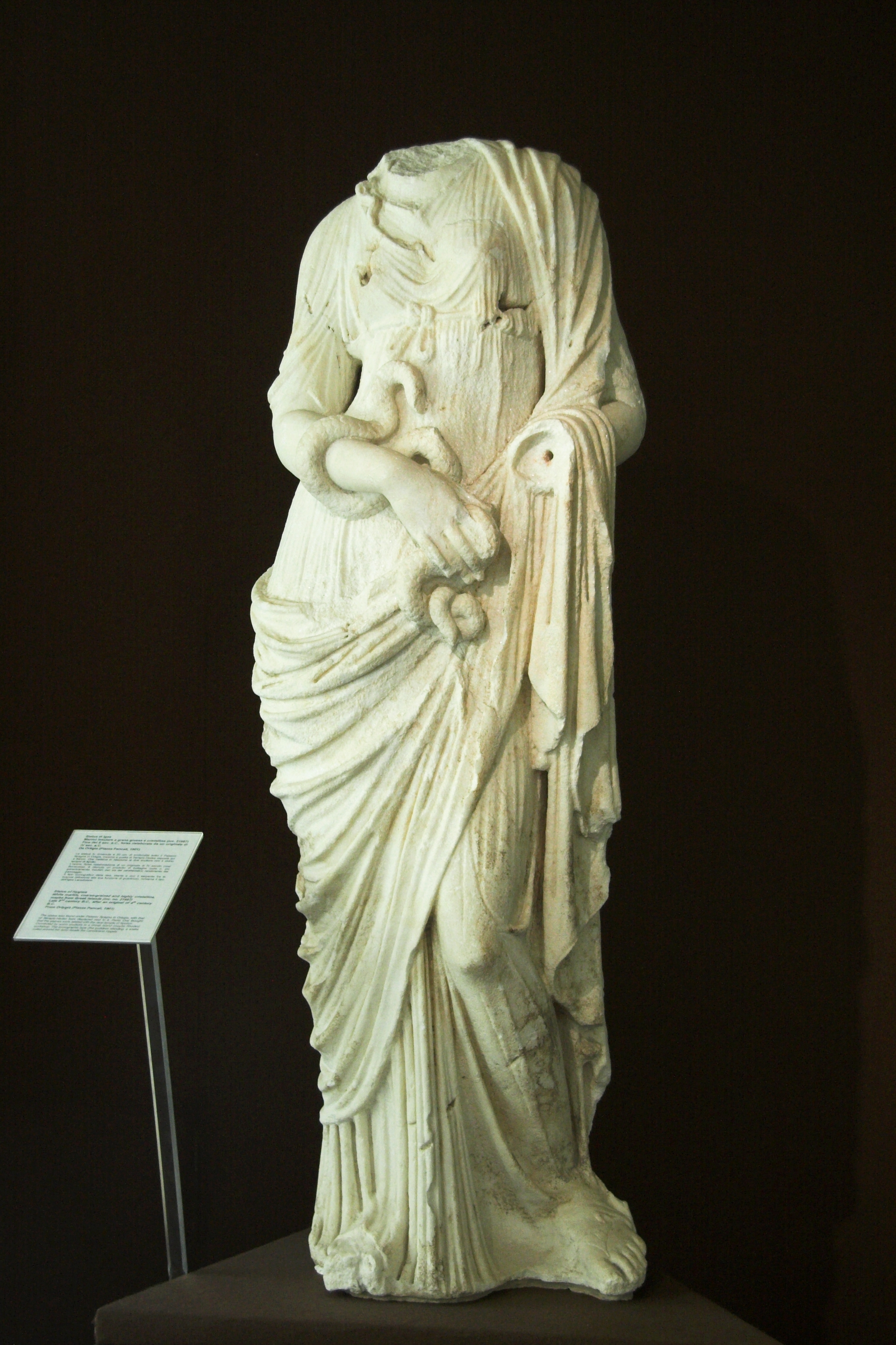 Hygeia, marble statue. Syracuse, Ortygiga, Piazza Pancali, under Palazzo Spagna. The statues probably were related with the neae Temple of Apollo. Probably wok of some students to a Greek island (maybe Rhodes) workshop, 130-100 BC, after Greek originial of 4. century BC. Archaeological Museum of Syracuse, inv. 21687.